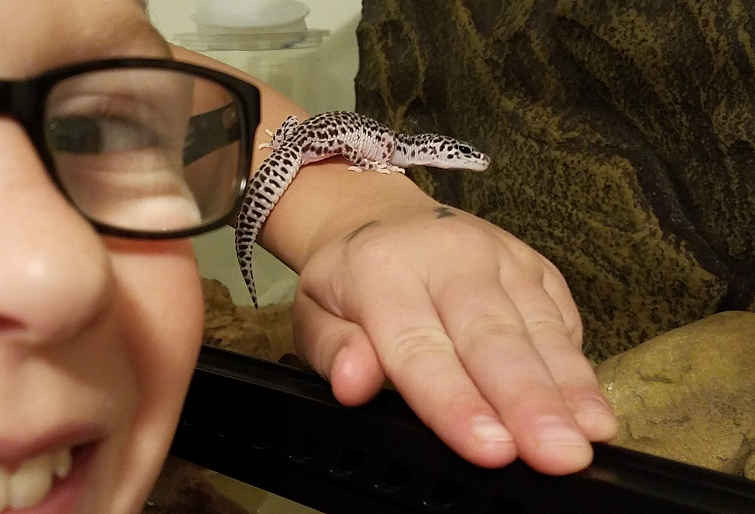 A pet Leopard gecko basking in the body-heat of his owner's arm